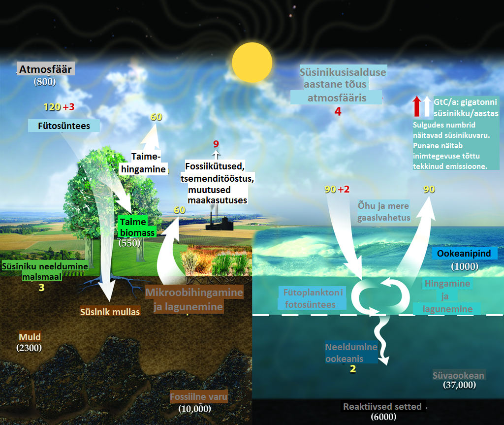 Estonian version